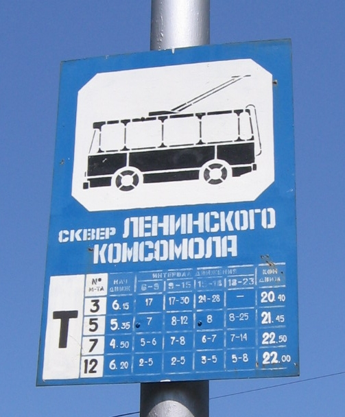 Trolleybus stop "The Park of the Lenin Comsomol" in Sevastopol (Ukraine) with a timetable for the 3, the 5, the 7 and the 12 trolleybuses.